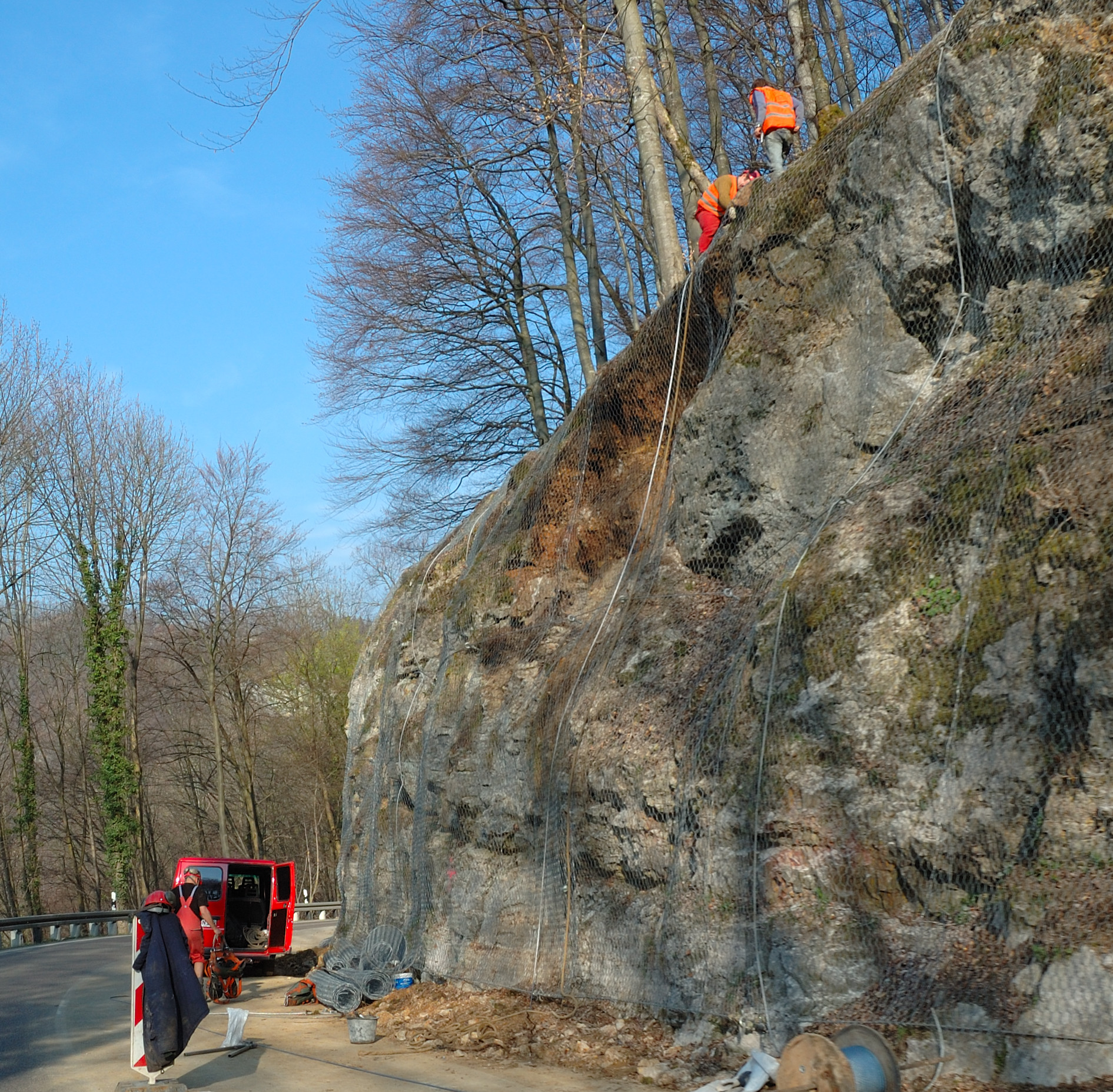 Roadworks at Gutenberger Steige, Bundesstraße 465, near Lenningen, Germany. The rocks at the border of the Swabian Alb have to be secured regularly.